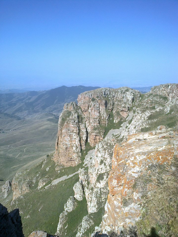 Dizapayt, photo is made by me